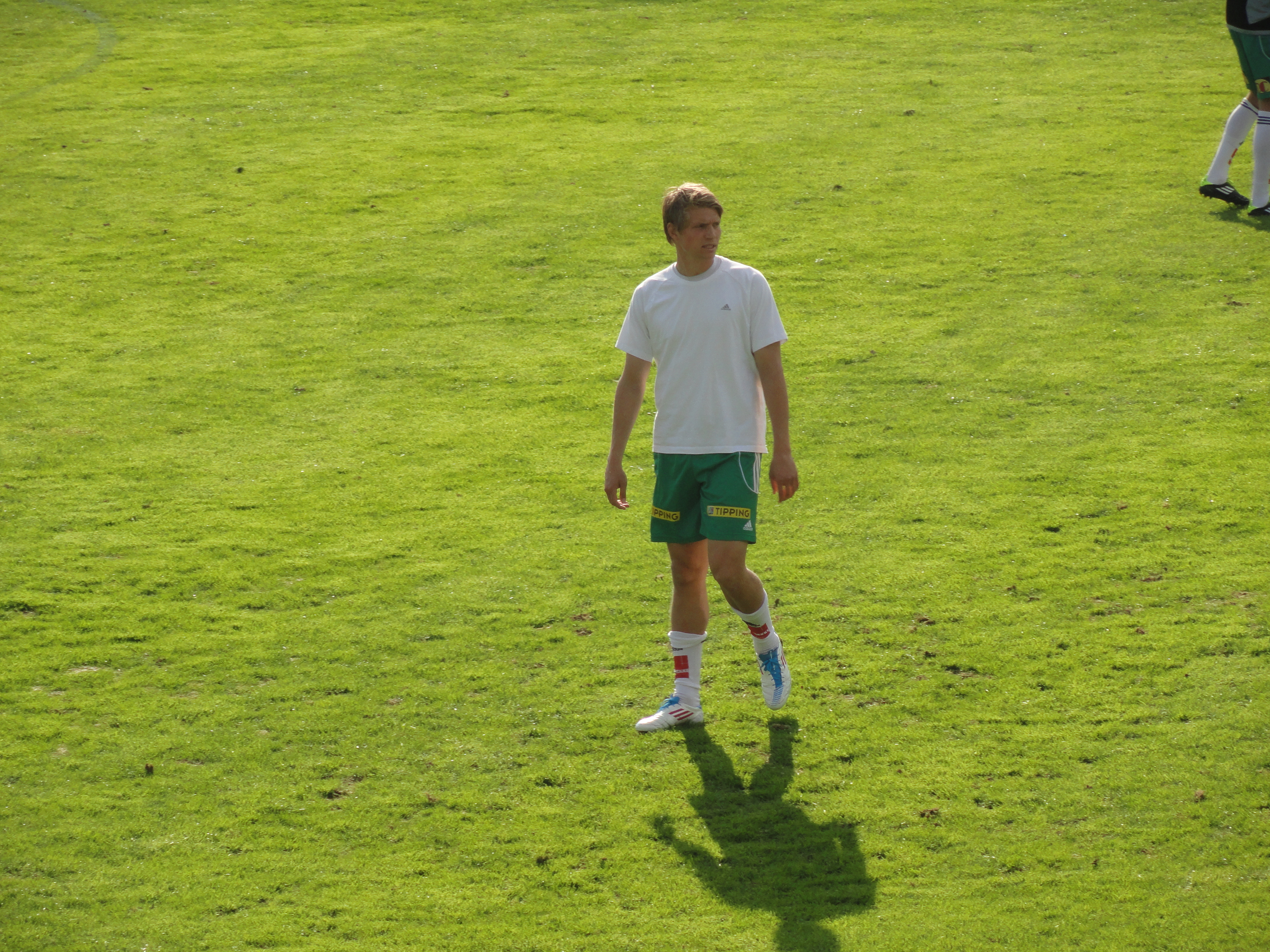 Picture of the norwegian football player Tore Andreas Gundersen